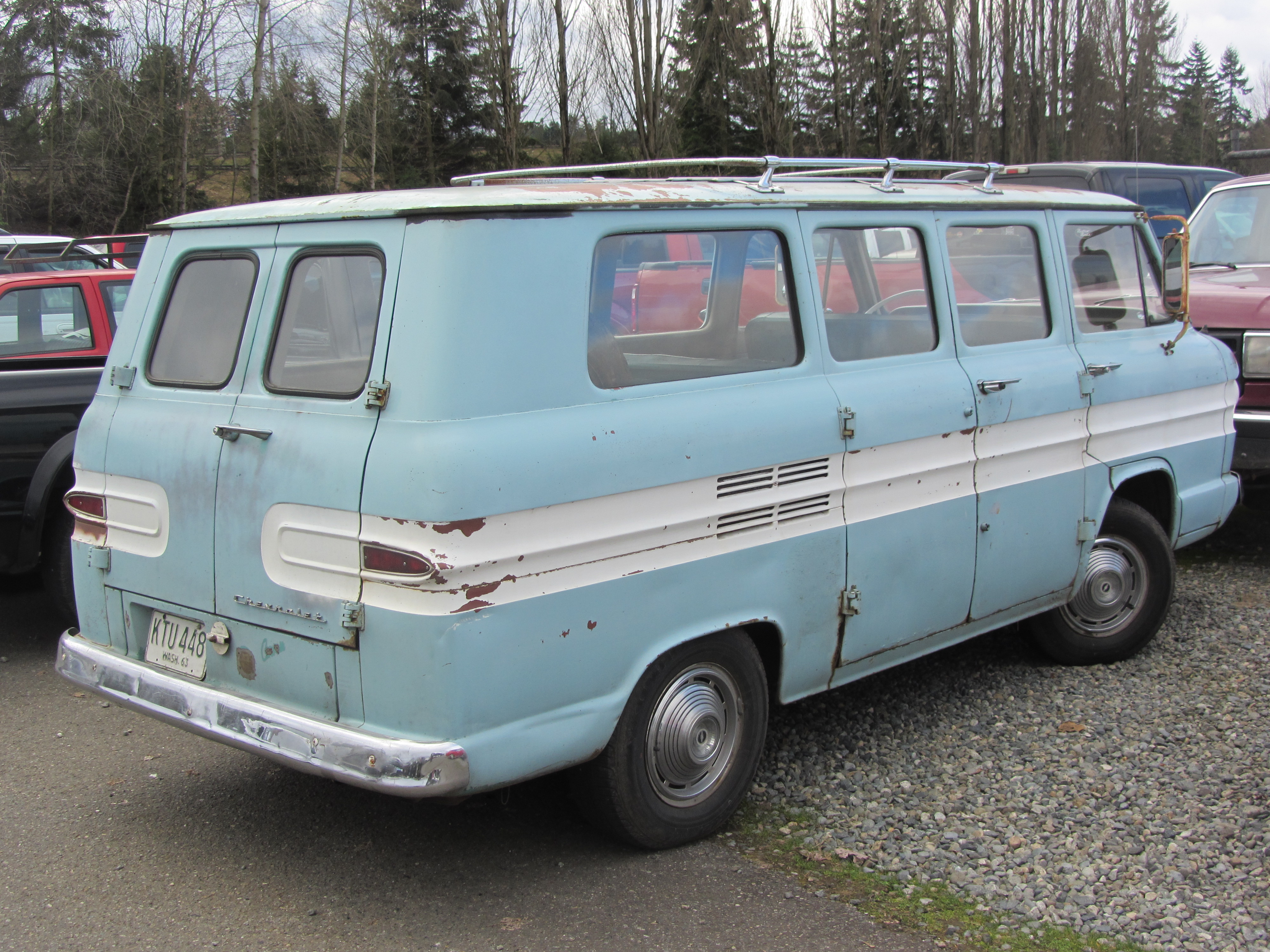 Fairly decent original Corvair seen in the parking lot at the Early Bird Swap Meet.